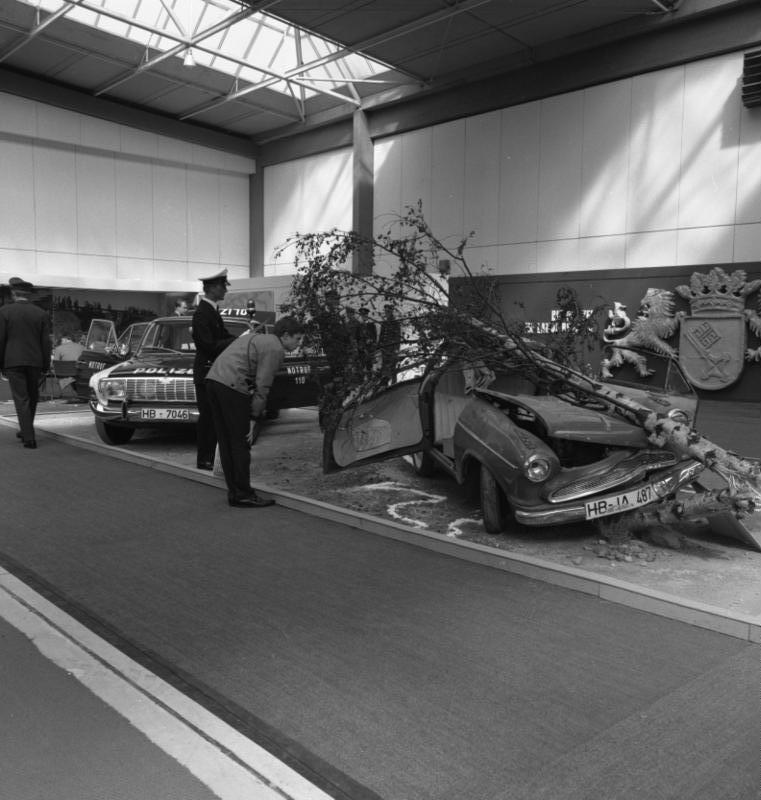 Internationale Polizei-Ausstellung Hannover 1966 Verkehrsunfall Information added by Wikimedia users.